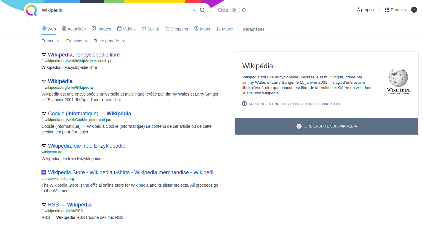 Screenshot showing the graphic design of the search engine Qwant, in its fifth version